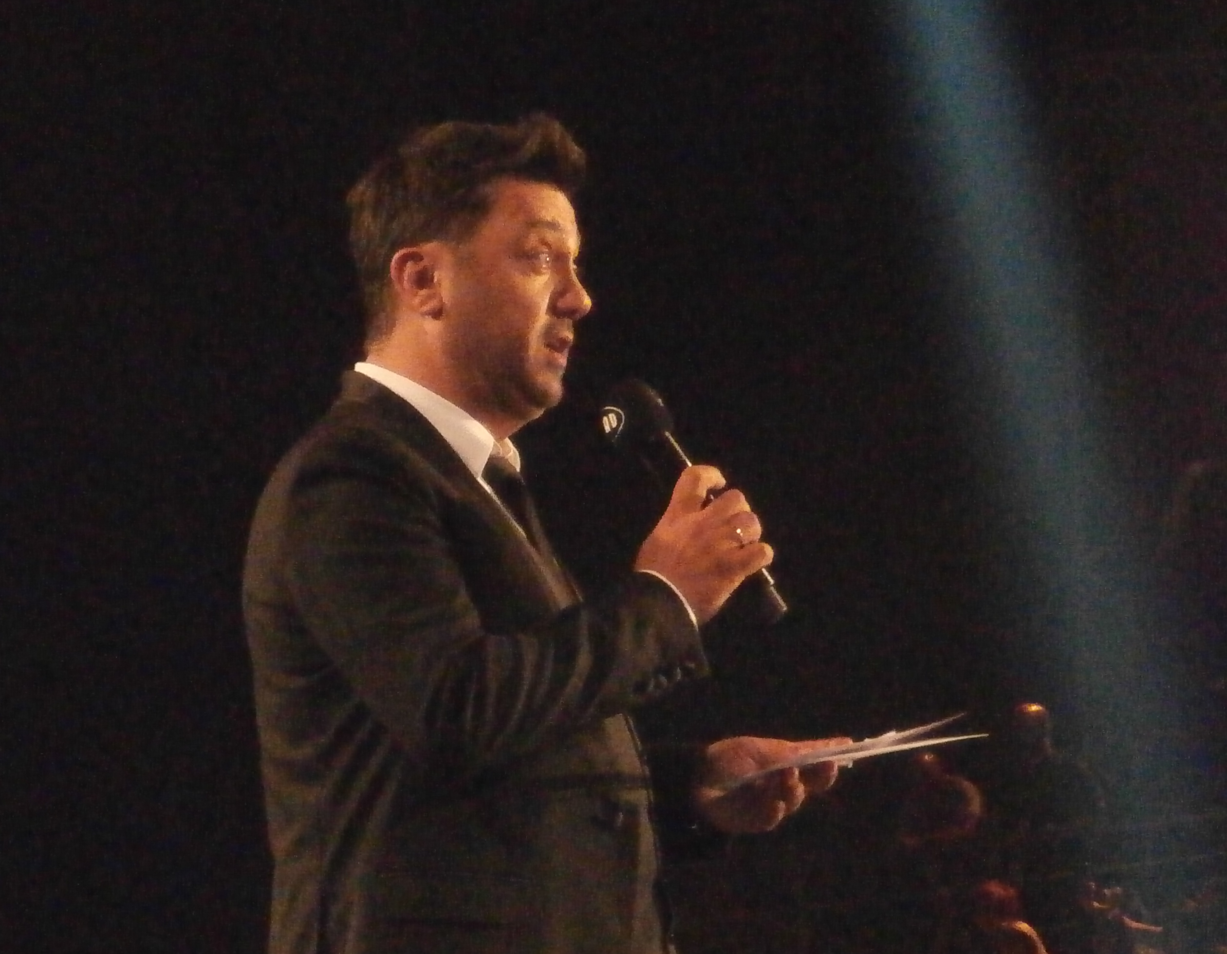 Giorgos Theofanous at MAD Video Music Awards 2017, ready to announce an award.